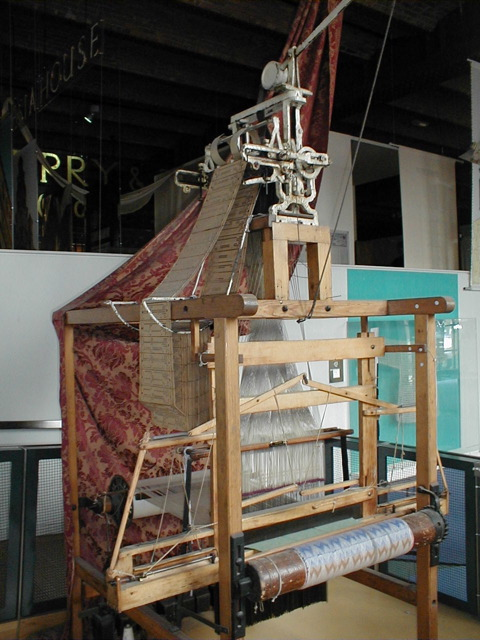 Picture of a Jacquard loom on display at the Museum of Science and Industry in Manchester, England.